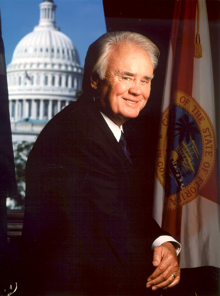 Bill Young, member of the United States House of Representatives.